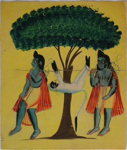 Lava_&_Kusha_taking_Hanuman, Kalighat painting